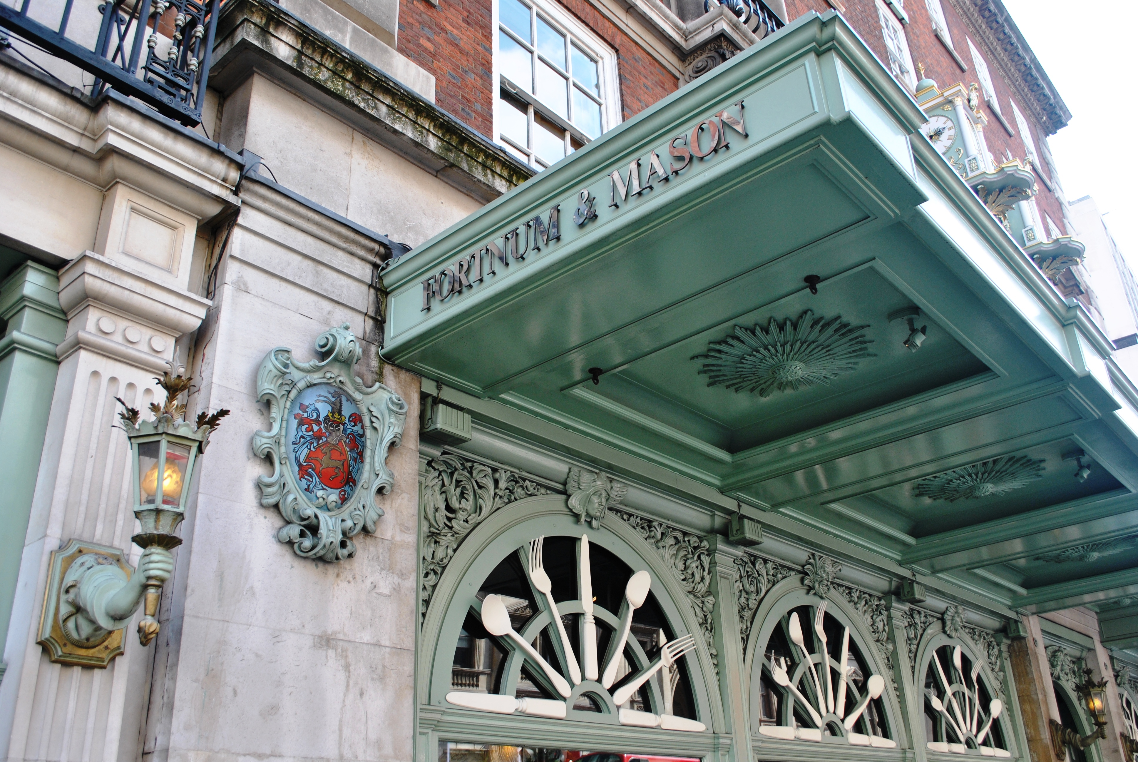 Fortnum & Mason